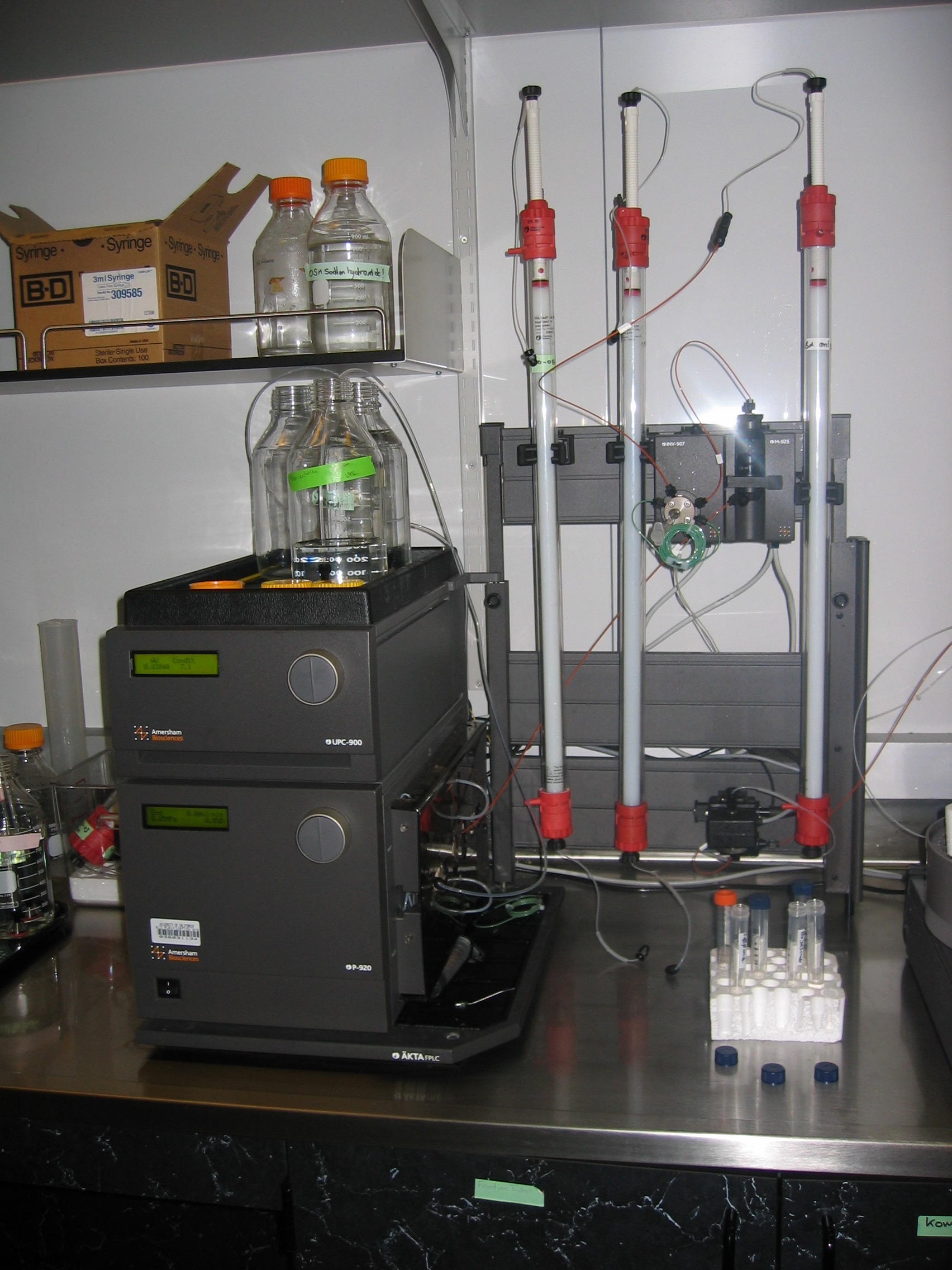 Photo taken by User:Kjaergaard. A size exclusion column.